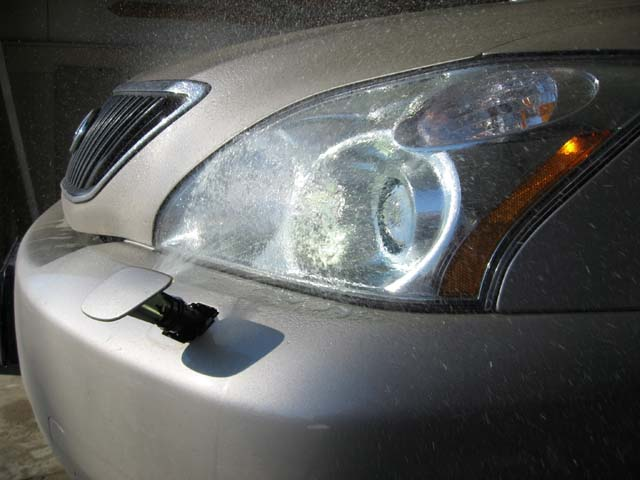 Lexus RX350 headlamp washer in action